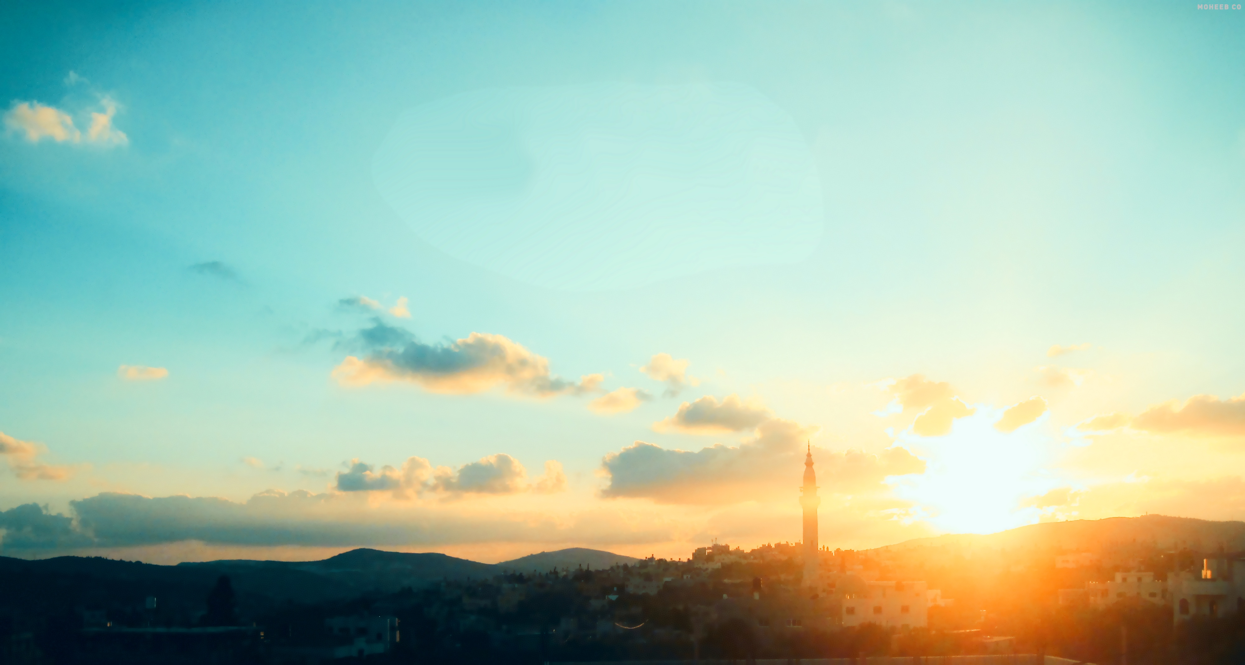 Beita, West Bank, Palestine